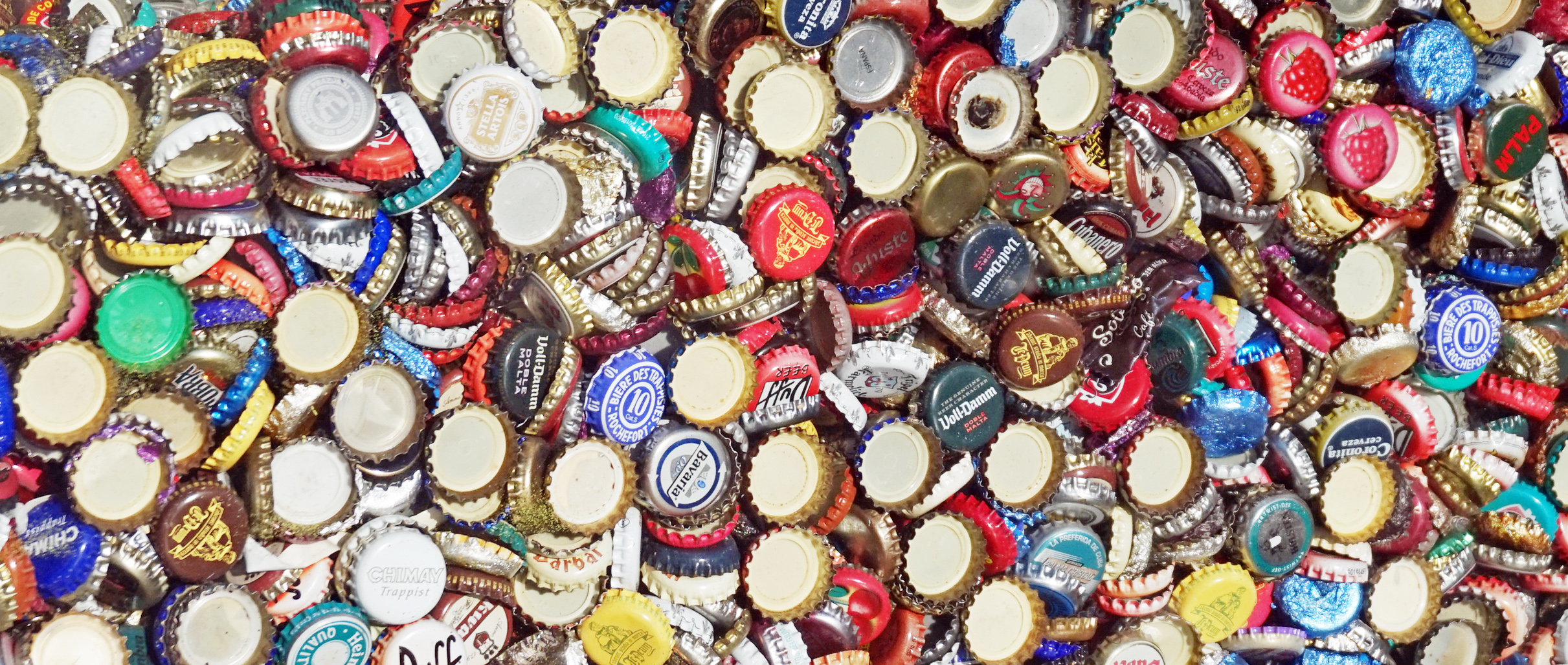 Bottle caps on the window of "Cerveceria La Mayor" in Madrid, Spain. This photograph was taken with a Sony Alpha a5000.